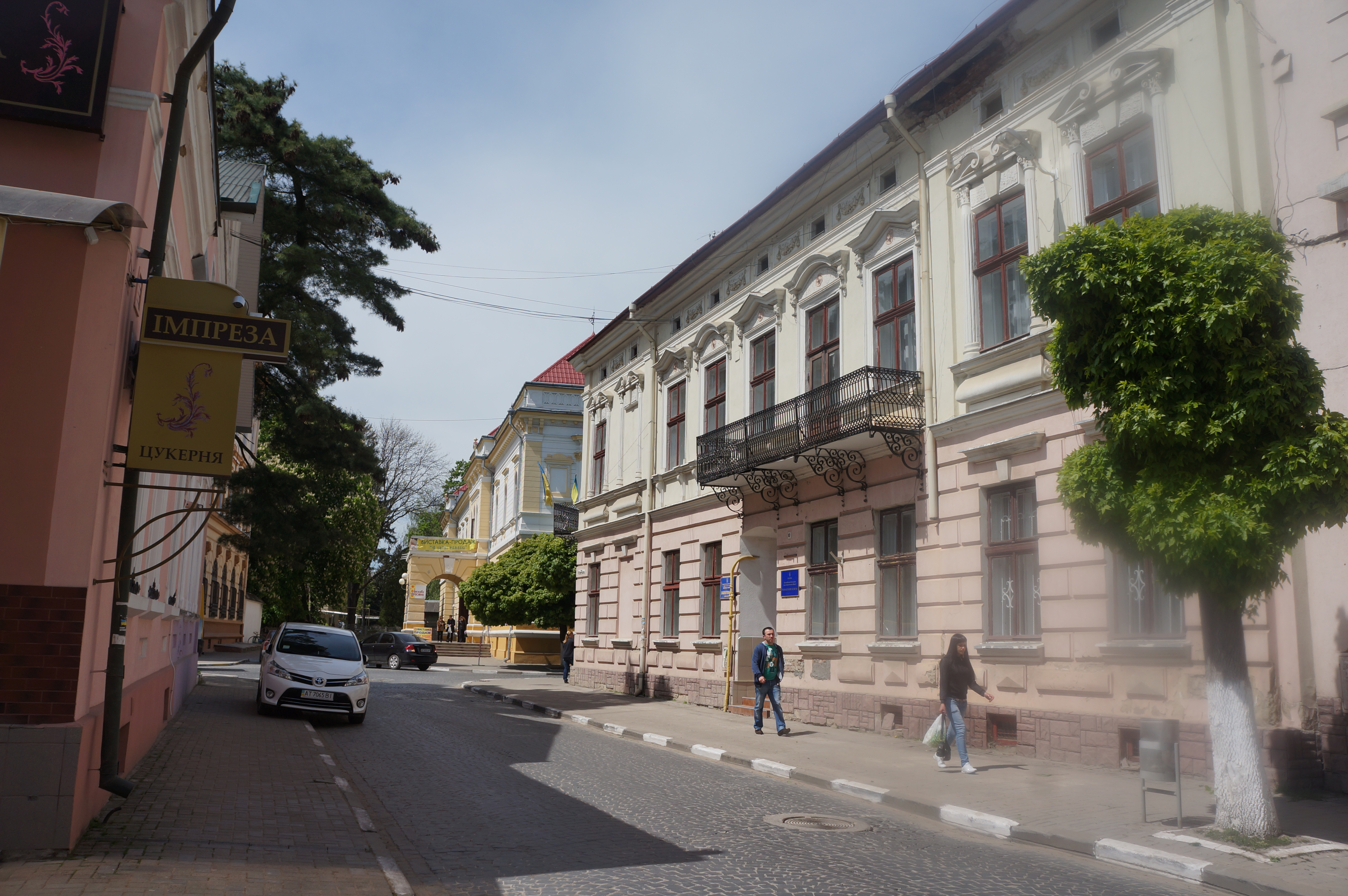 Old Town in Kolomyja